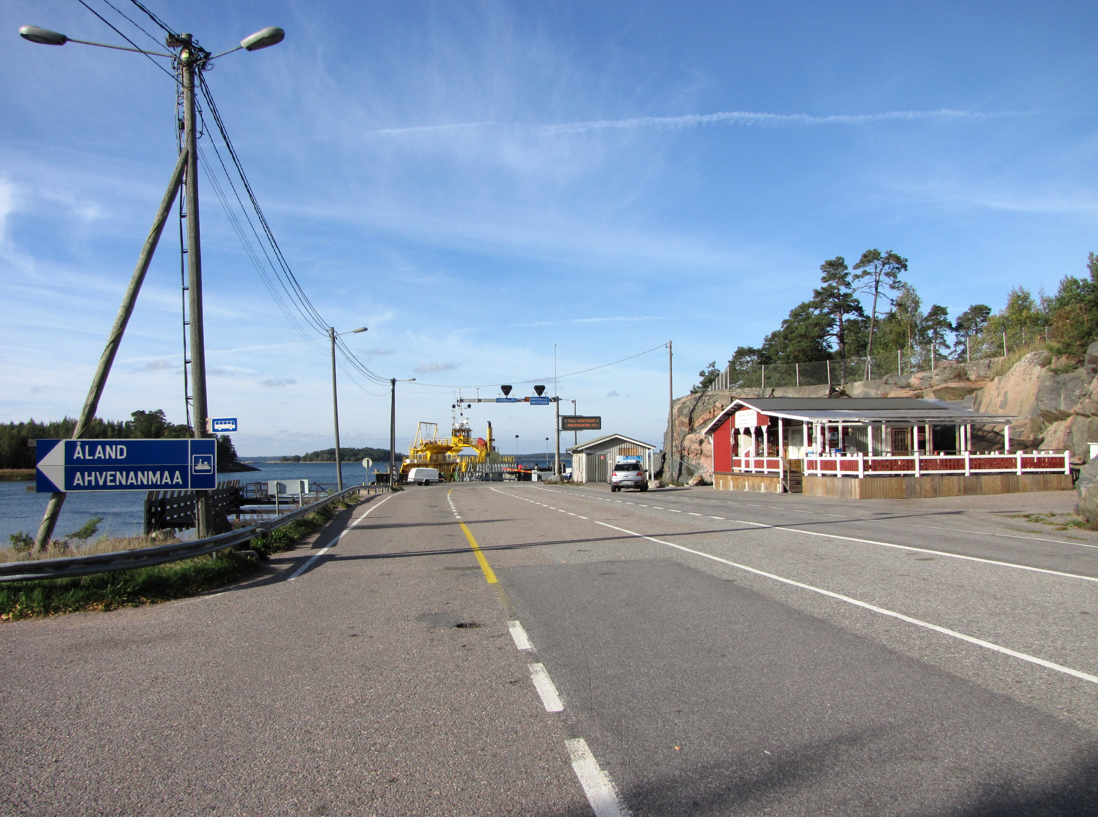 Galtby ferry pier in Korpo, Finland.